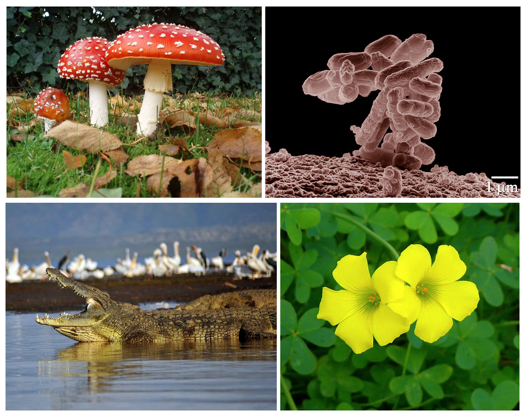 Biology: top right - E. coli bacteria, top left - Amanita muscaria fungus, bottom right - Oxalis pes-caprae, bottom left - Crocodylus niloticus